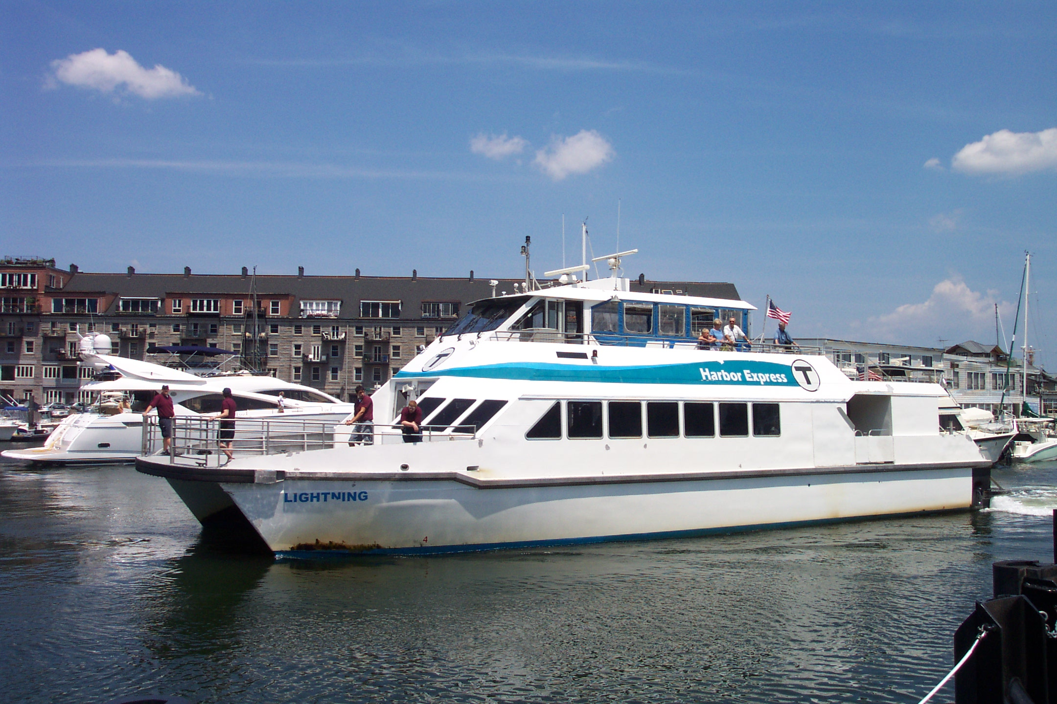 The Lightning on a Massachusetts Bay Transportation Authority inner harbor F2 service, arriving at Boston's Long Wharf from Quincy.